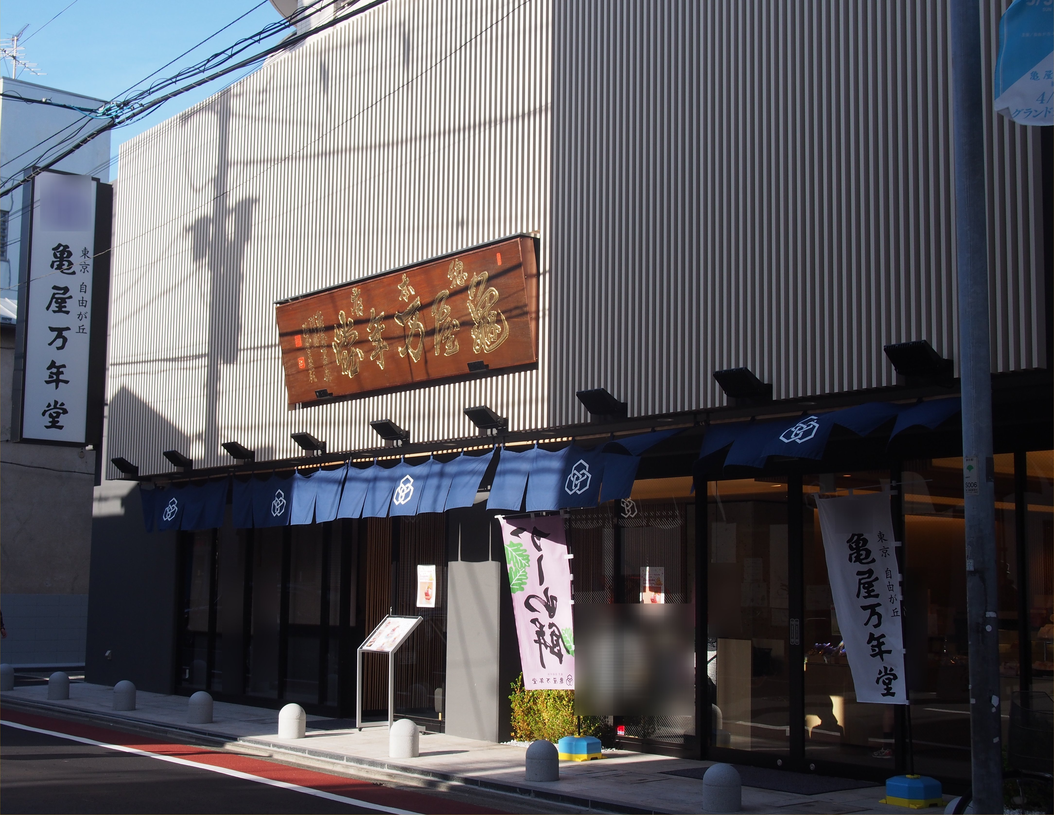 A photo of Kameyamannendo(a Wagashi shop in Tokyo.) Jiyugaoka head store,Jiyugaoka,Meguro-ku,Tokyo,Japan.